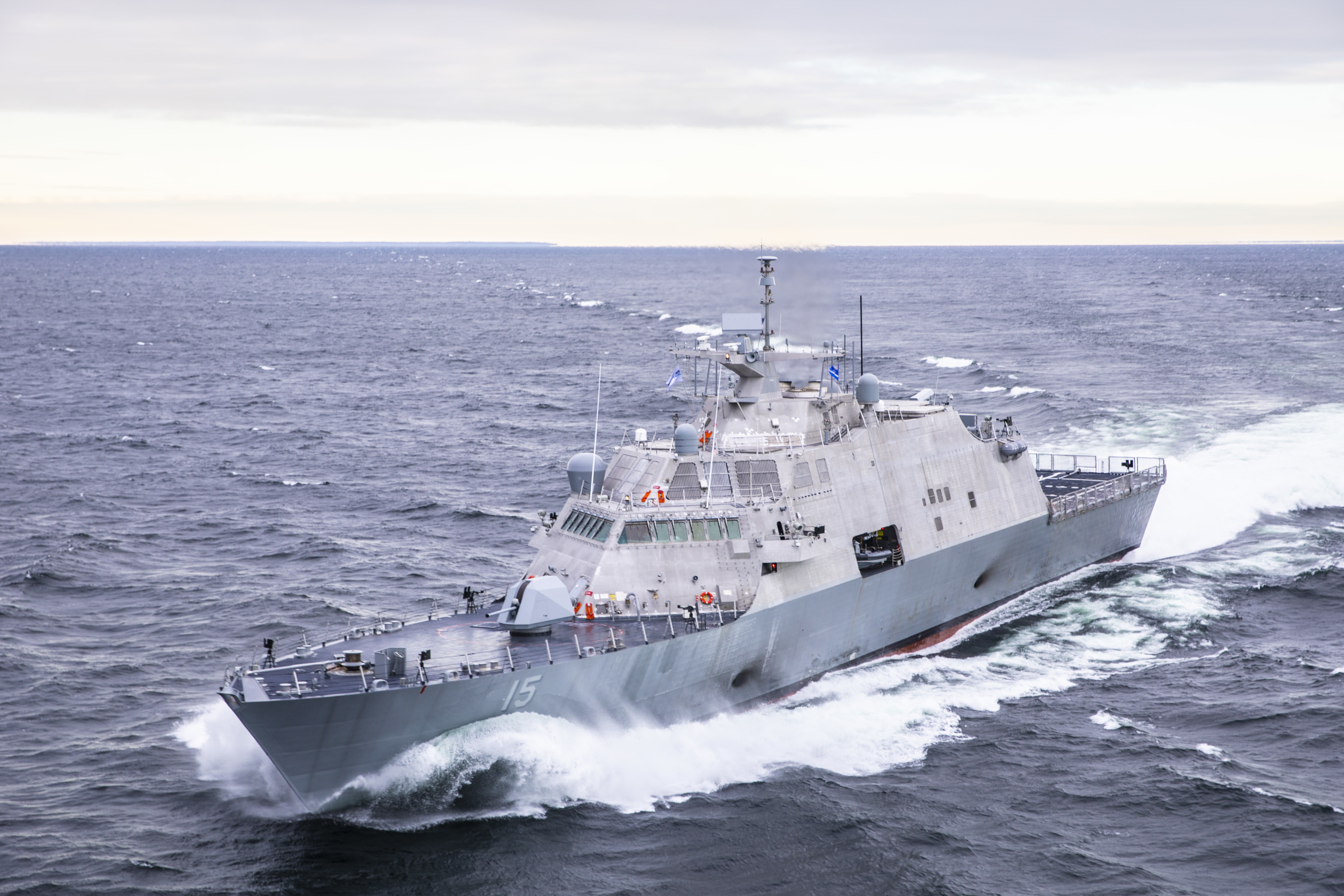 181206-N-N0101-025 MARINETTE, Wis. (Dec. 6, 2018) The future littoral combat ship USS Billings (LCS 15) conducts acceptance trials on Lake Michigan, Dec. 6, 2018. Billings is the 17th littoral combat ship, an adaptable platform designed to support focused mine countermeasures, anti-submarine warfare and surface warfare missions. (U.S. Navy photo courtesy of Lockheed Martin/Released)